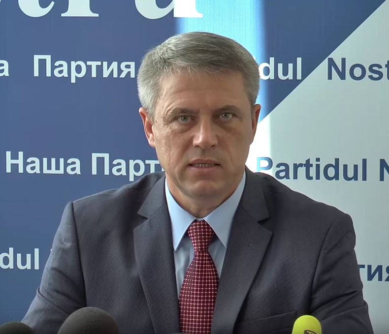 Presidential candidate Dumitru Ciubașenco, representing the "Our Party" political party of Moldova